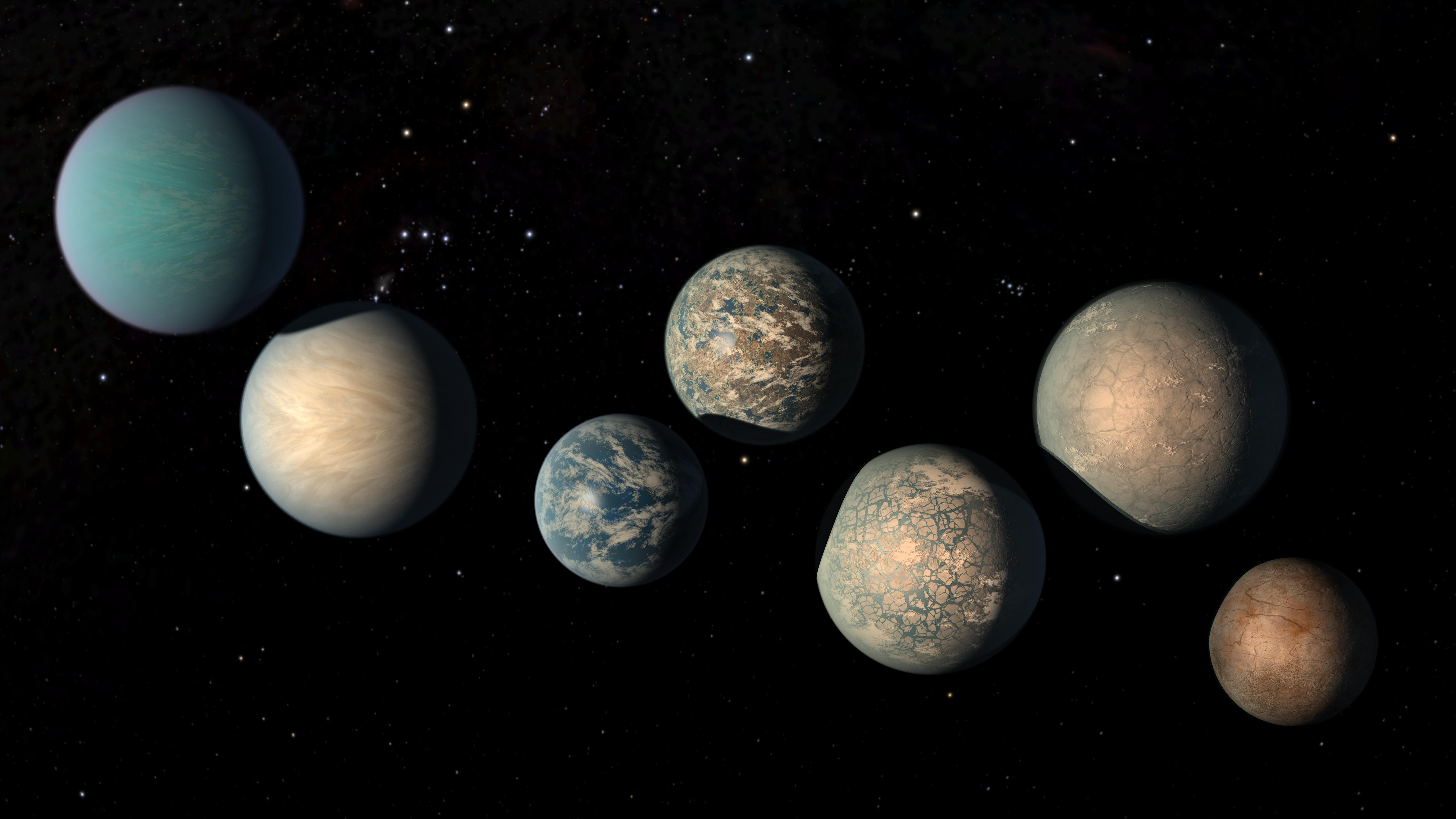 PIA22097: Illustration of TRAPPIST-1 Planets as of Feb. 2018 This illustration shows the seven Earth-size planets of TRAPPIST-1, an exoplanet system about 40 light-years away, based on data current as of February 2018. The image shows the planets' relative sizes but does not represent their orbits to scale. The art highlights possibilities for how the surfaces of these intriguing worlds might look based on their newly calculated properties. The seven planets of TRAPPIST-1 are all Earth-sized and terrestrial. TRAPPIST-1 is an ultra-cool dwarf star in the constellation Aquarius, and its planets orbit very close to it. In the background, slightly distorted versions the familiar constellations of Orion and Taurus are shown as they would appear from the location of TRAPPIST-1 (courtesy of California Academy of Sciences/Dan Tell). NASA's Jet Propulsion Laboratory, Pasadena, California, manages the Spitzer Space Telescope mission for NASA's Science Mission Directorate, Washington. Science operations are conducted at the Spitzer Science Center at Caltech, also in Pasadena. Spacecraft operations are based at Lockheed Martin Space Systems Company, Littleton, Colorado. Data are archived at the Infrared Science Archive housed at Caltech/IPAC. Caltech manages JPL for NASA. For additional information about the Spitzer mission, visit and For additional information on the Kepler and the K2 mission, visit For additional information about exoplanets, visit